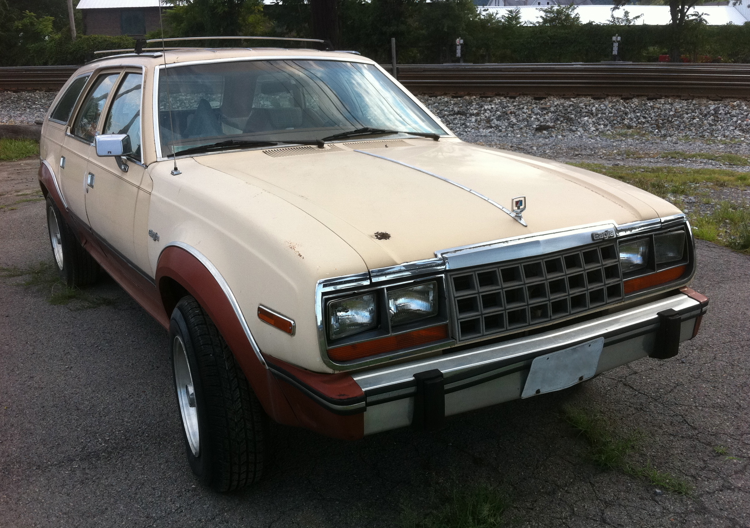 AMC Eagle, a compact "crossover" station wagon (automatic all-wheel-drive) by American Motors Corporation (AMC). Photographed in Cumberland, Maryland